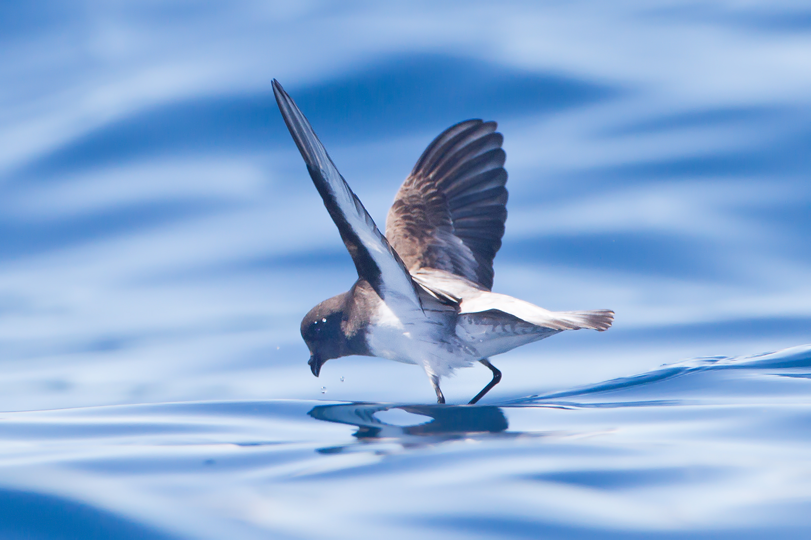 Grey-backed Storm Petrel (Garrodia nereis), East of the Tasman Peninsula, Tasmania, Australia